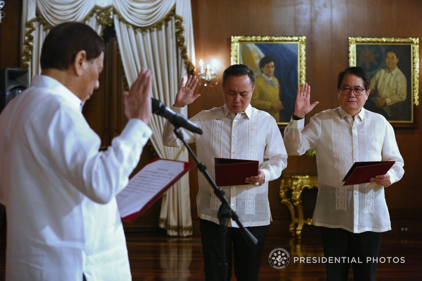 President Rodrigo Roa Duterte administers the oath for the newly-elected Philippine Olympic Committee (POC) Chairman and incumbent Cavite Seventh District Representative Abraham Tolentino and POC President Victorio Vargas during a ceremony at the Malacañan Palace on March 5, 2018. TOTO LOZANO/PRESIDENTIAL PHOTO